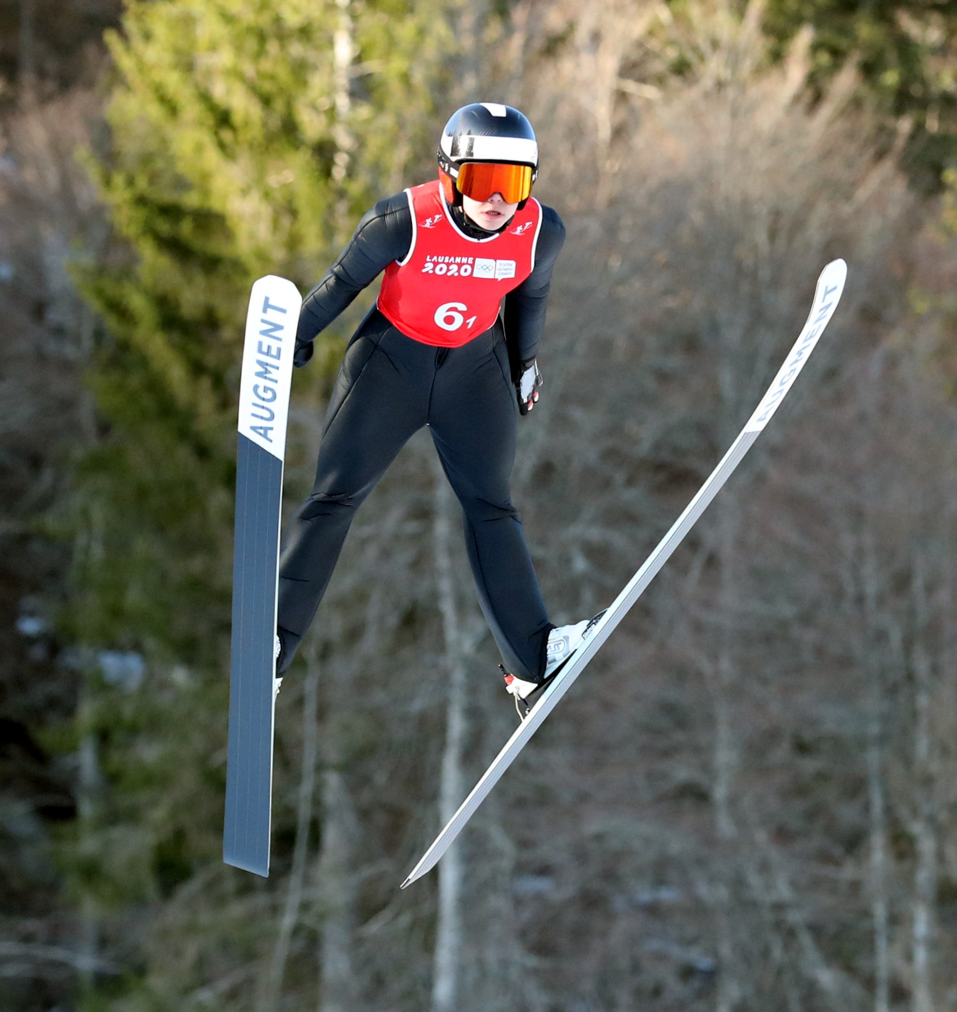 Ski Jumping normal hill at the Nordic Mixed Team competition at the 2020 Winter Youth Olympics in Lausanne